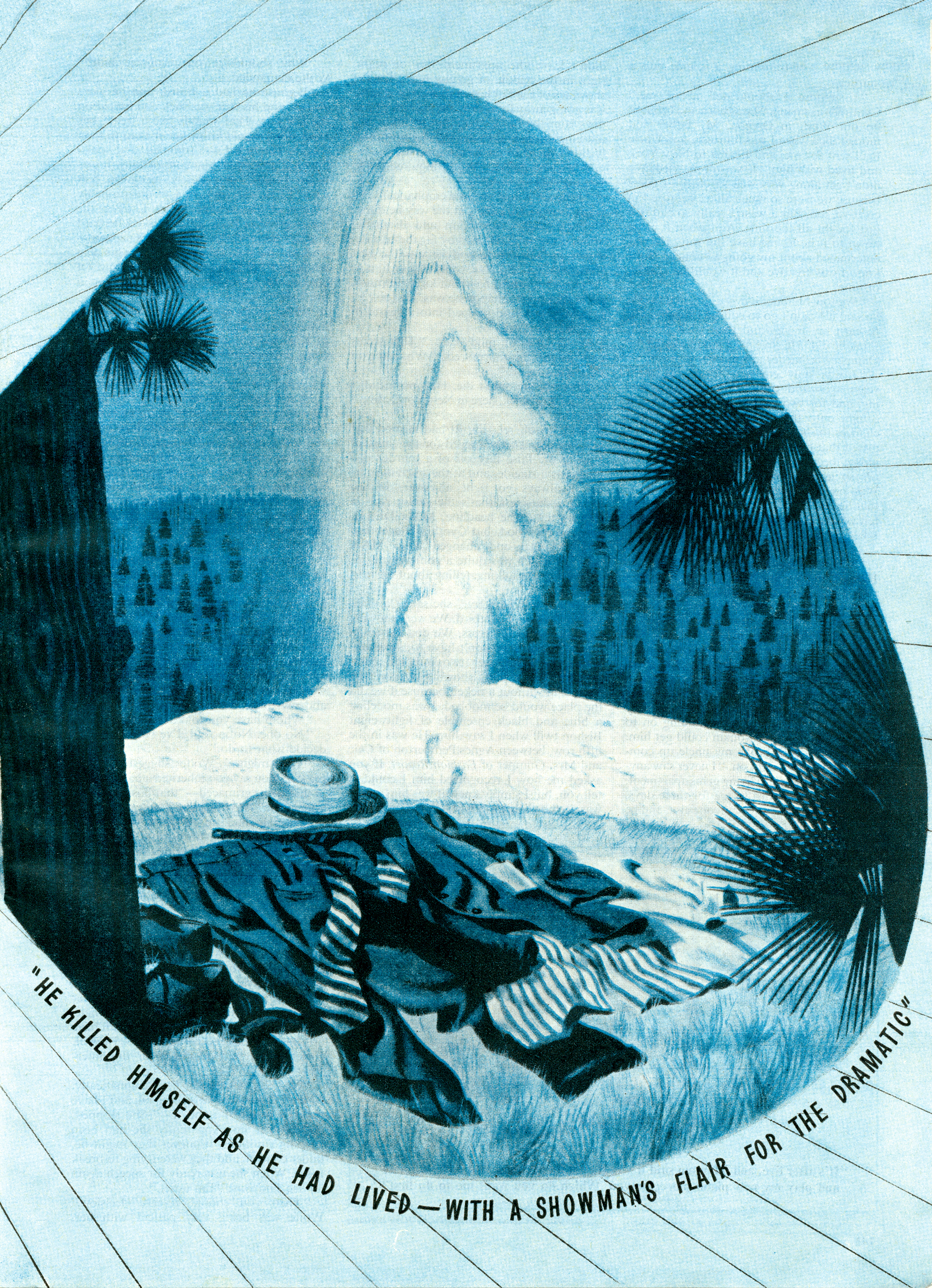 Lead illustration from The American Magazine printing of "Man Alive", a Nero Wolfe short story by Rex Stout